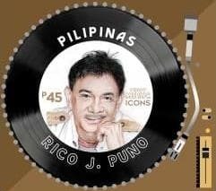 Philippine Music Icons